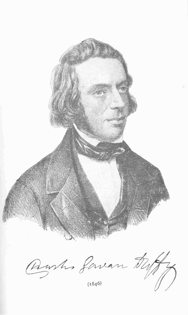 Contemporary portrait of Charles Gavan Duffy (1816 - 1903), Irish nationalist activist and later premier of Victoria, Australia.